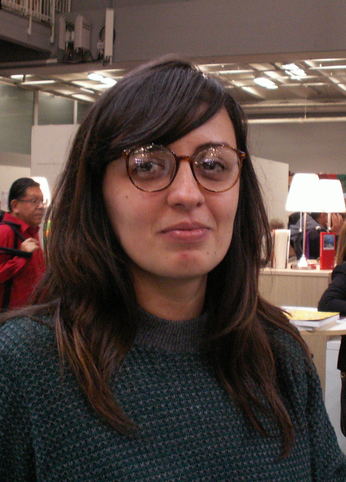 At the Göteborg Book Fair 2014.